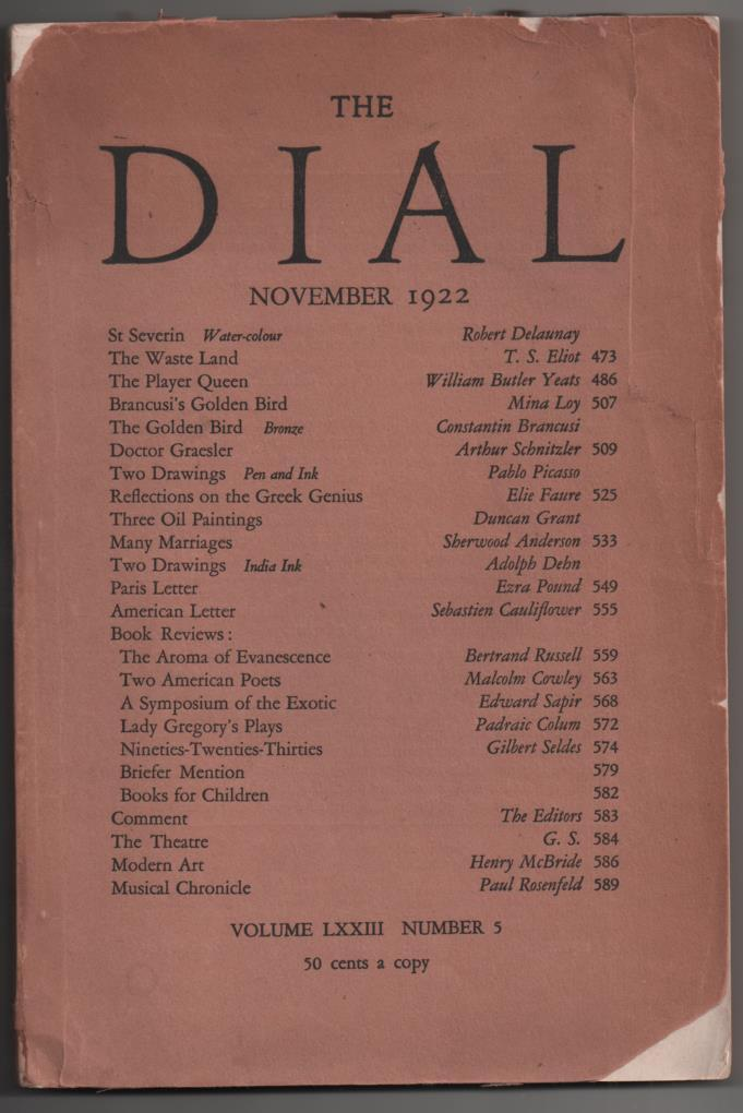 The Dial Cover with contents